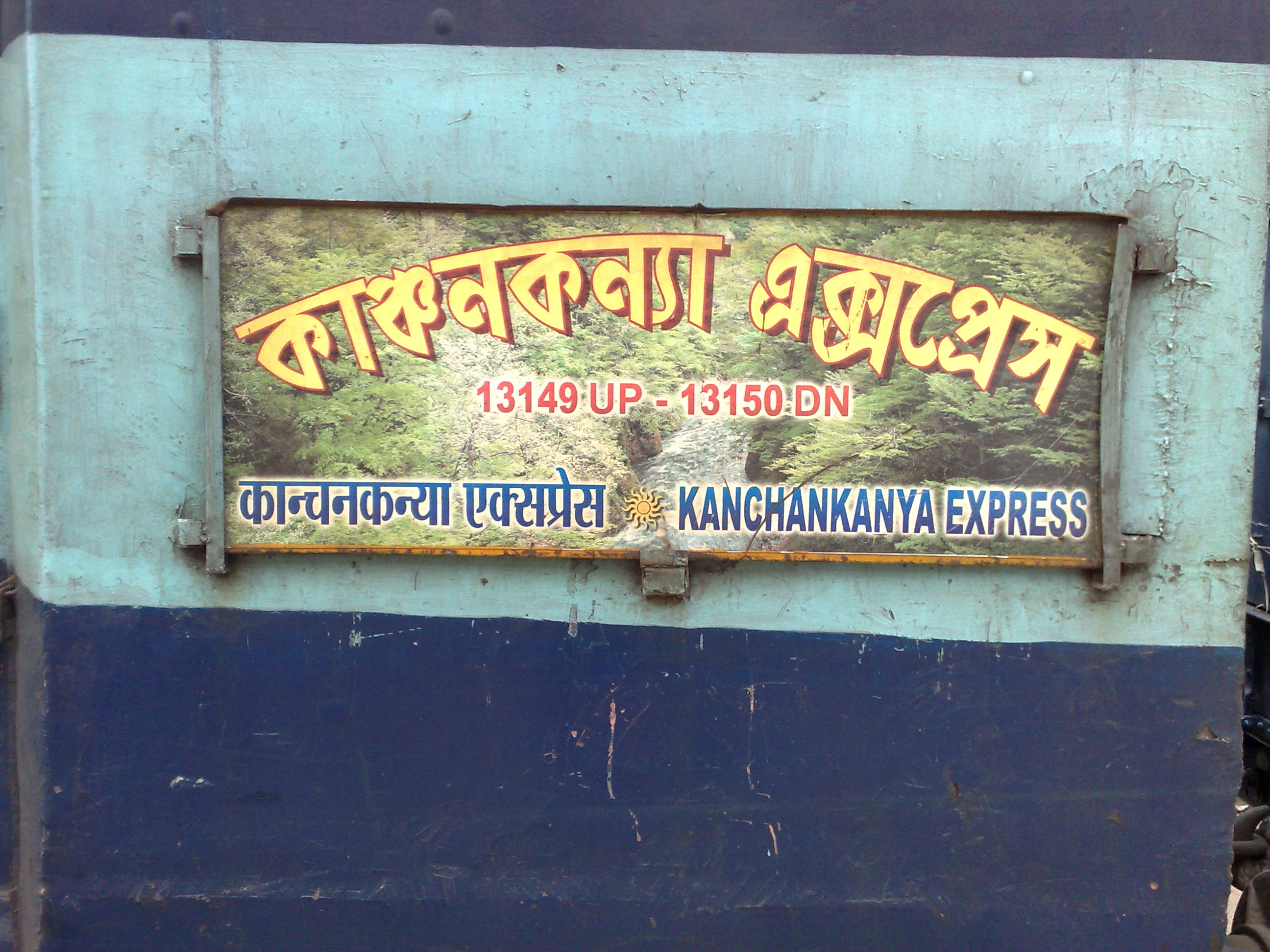 13150 Kanchan Kanya Express